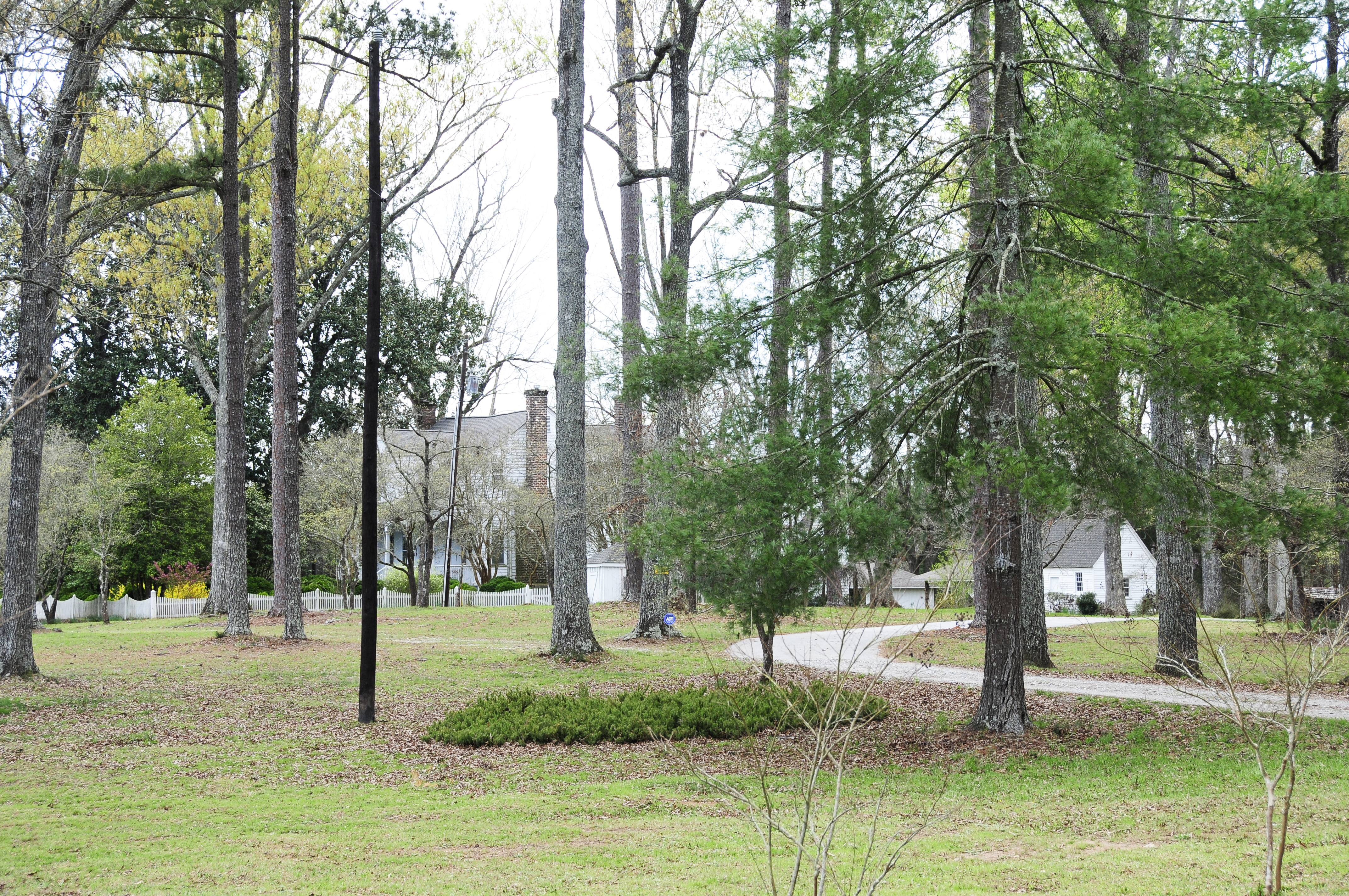 Sylvania